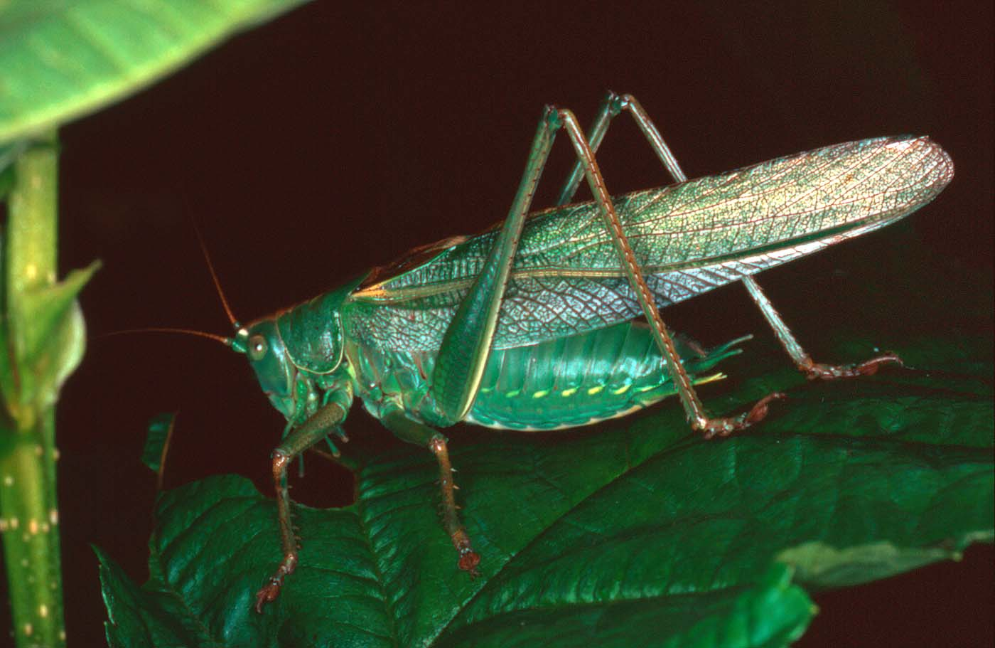 Description: Tettigonia viridissima